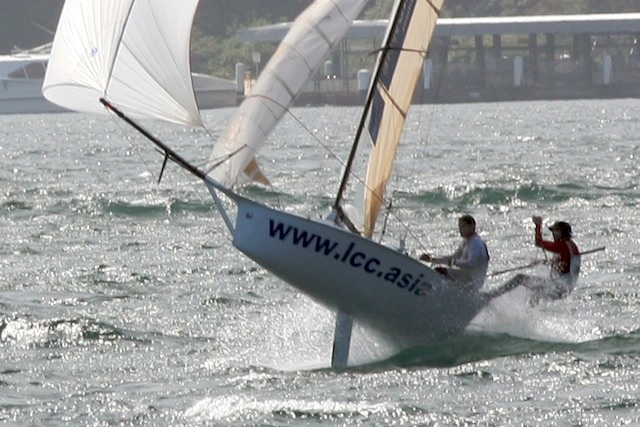 12 Foot Skiff LCC flying over waves in Sydney Harbour